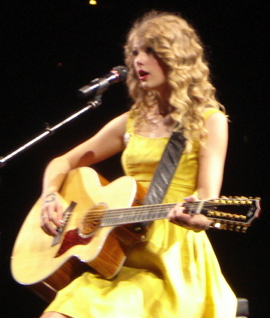 Taylor Swift performing at the Staples Center on April 16, 2010, as part of the Fearless tour